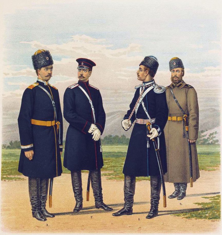 Russian Asian Cossacks (3. Baikal Cossack sergeant; 4. Amur Cossack private)